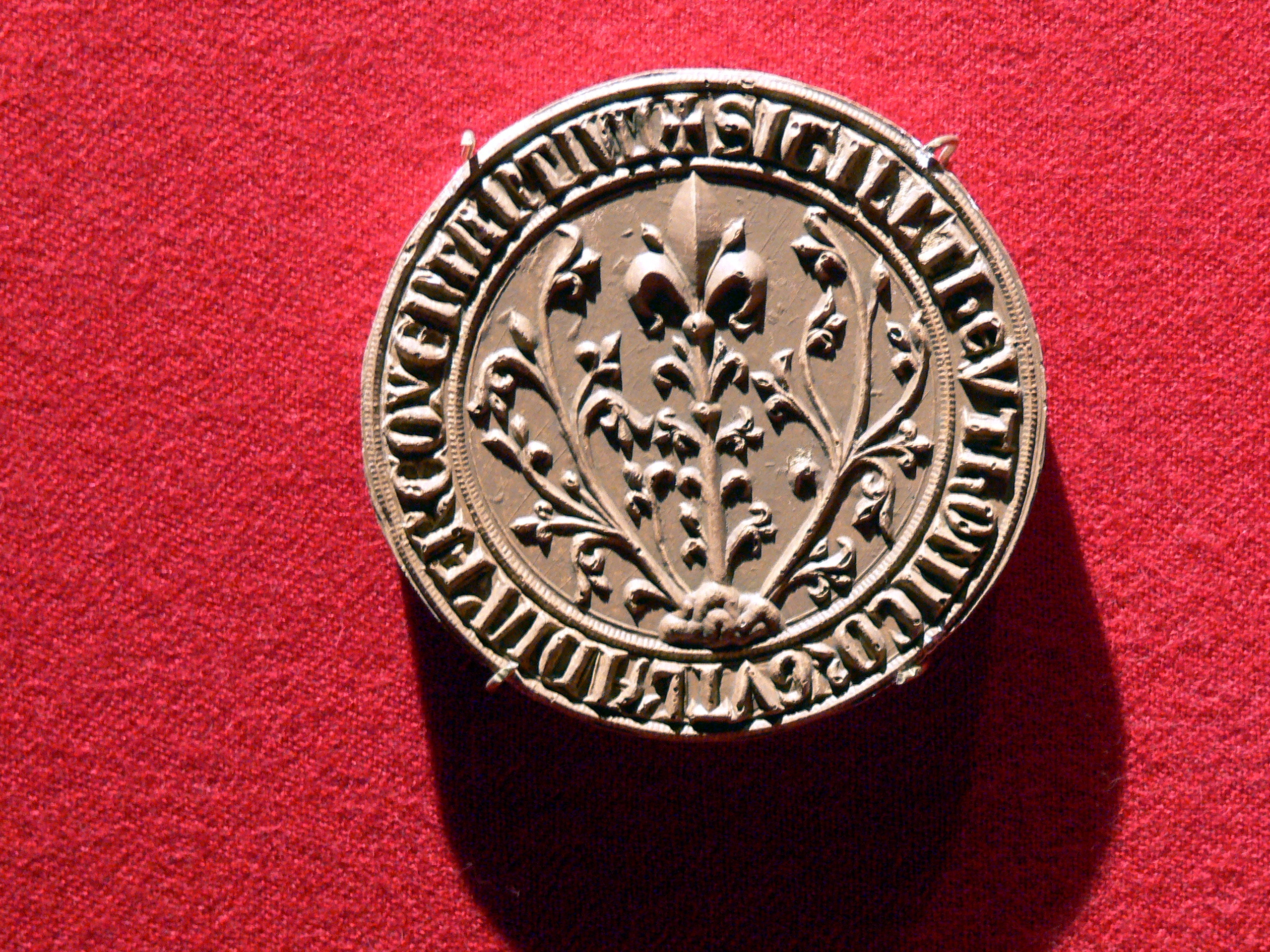 Fornsalen Museum, Visby ( Gotland ). Seal of the guild of German merchants in Visby.